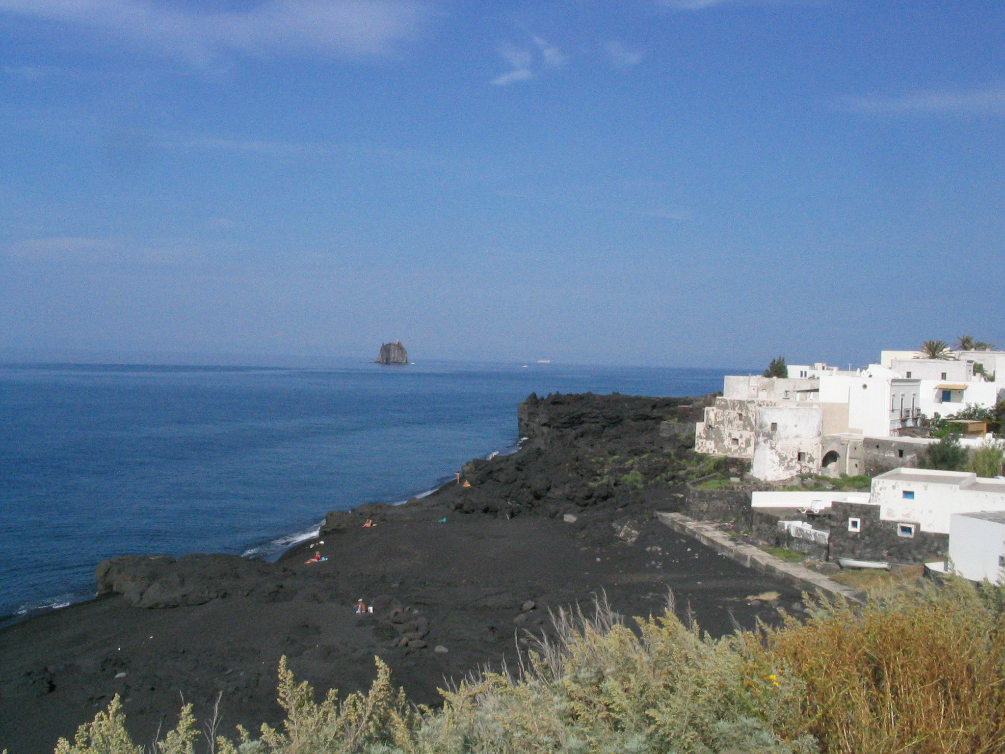 Stromboli village as seen from the walk to the volcano. You can see Strombolicchio in the distance